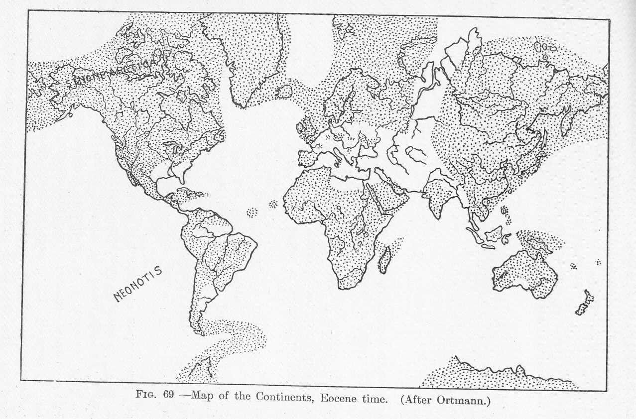 Map of the Continents, Eocene time Subject: World maps Tag: Coasts